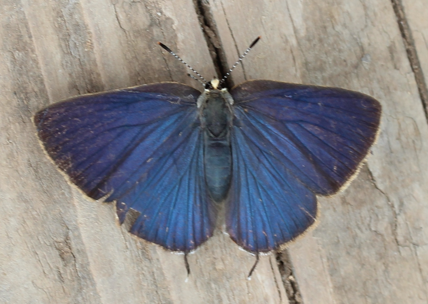 Rapala arata in Mount Ibuki